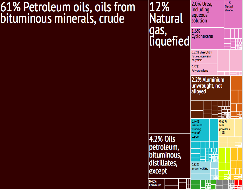 Oman Export Treemap from MIT Harvard Economic Complexity Observatory